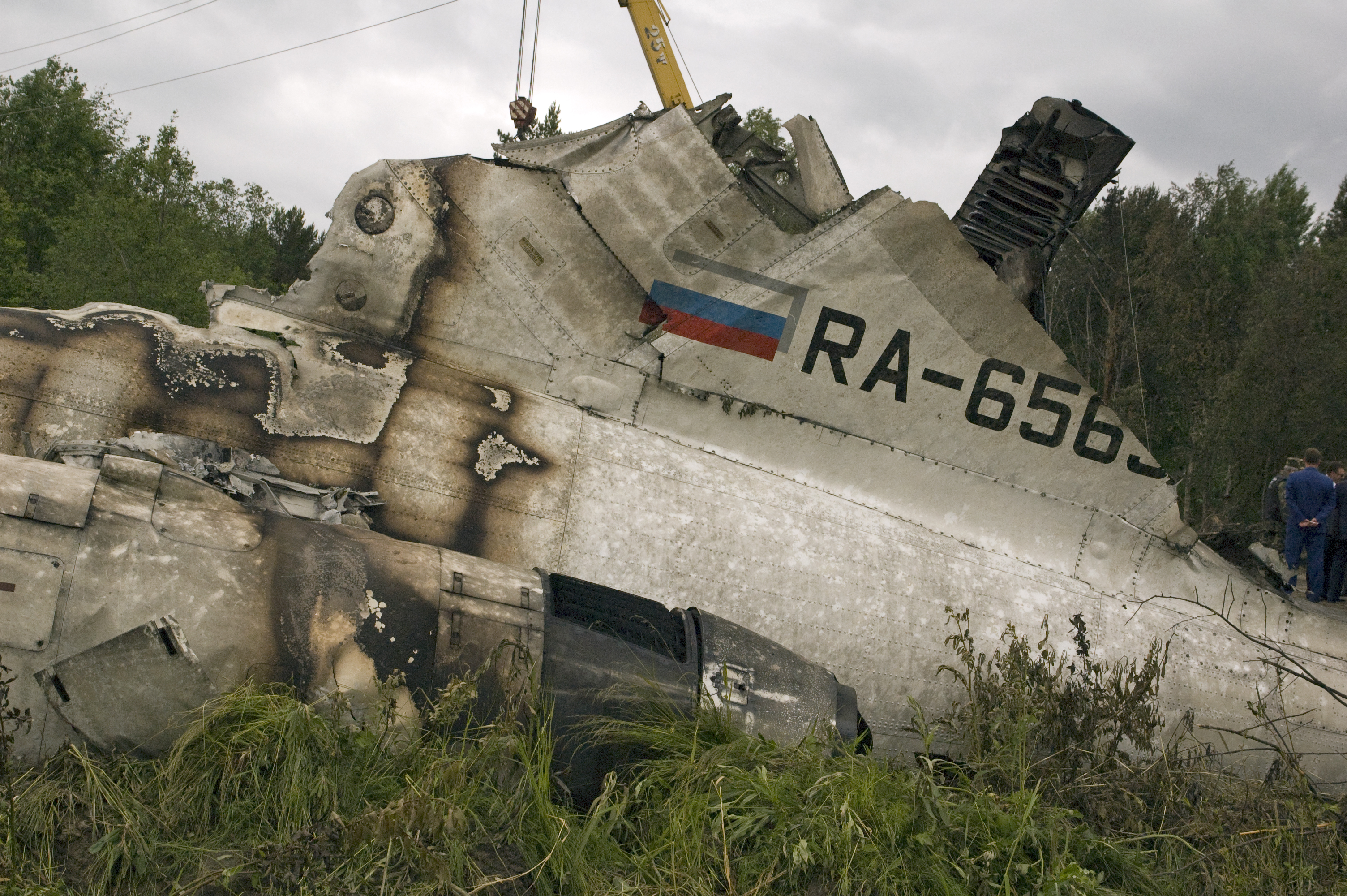 Tail part of crashed plain with registration number.